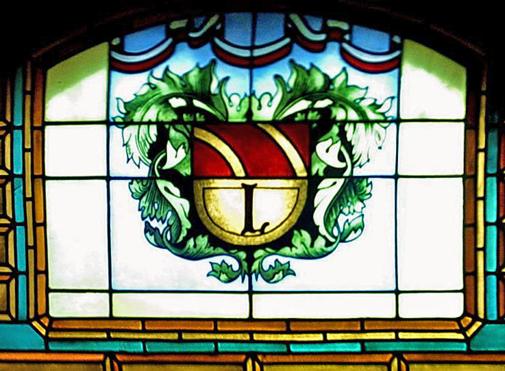 Coat of arms of town Lądek-Zdrój in stained glass (Poland).